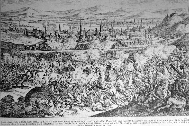 Battle of Buda Castle in 1686